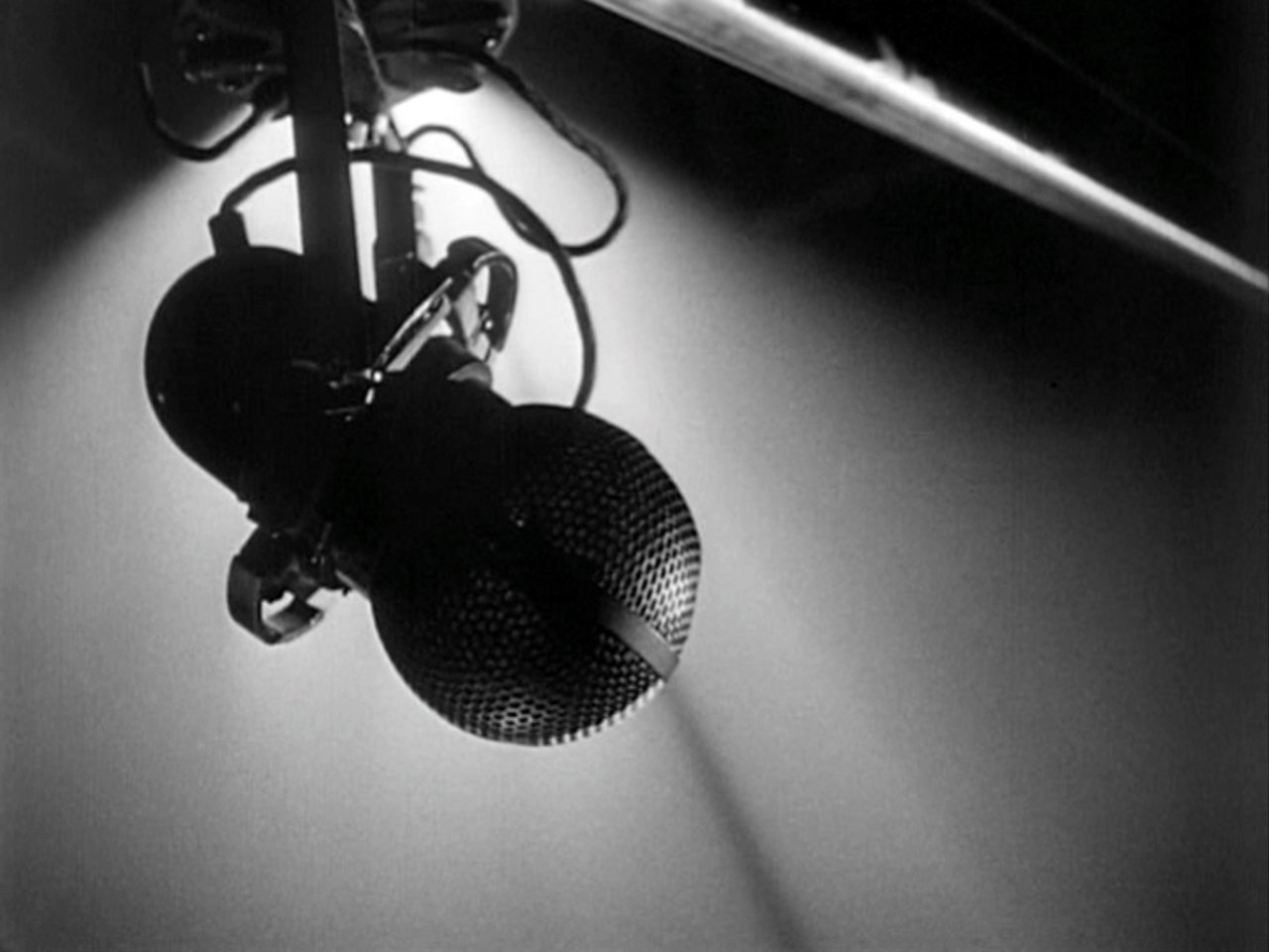 Screenshot of the microphone representing narrator Orson Welles from the Citizen Kane trailer